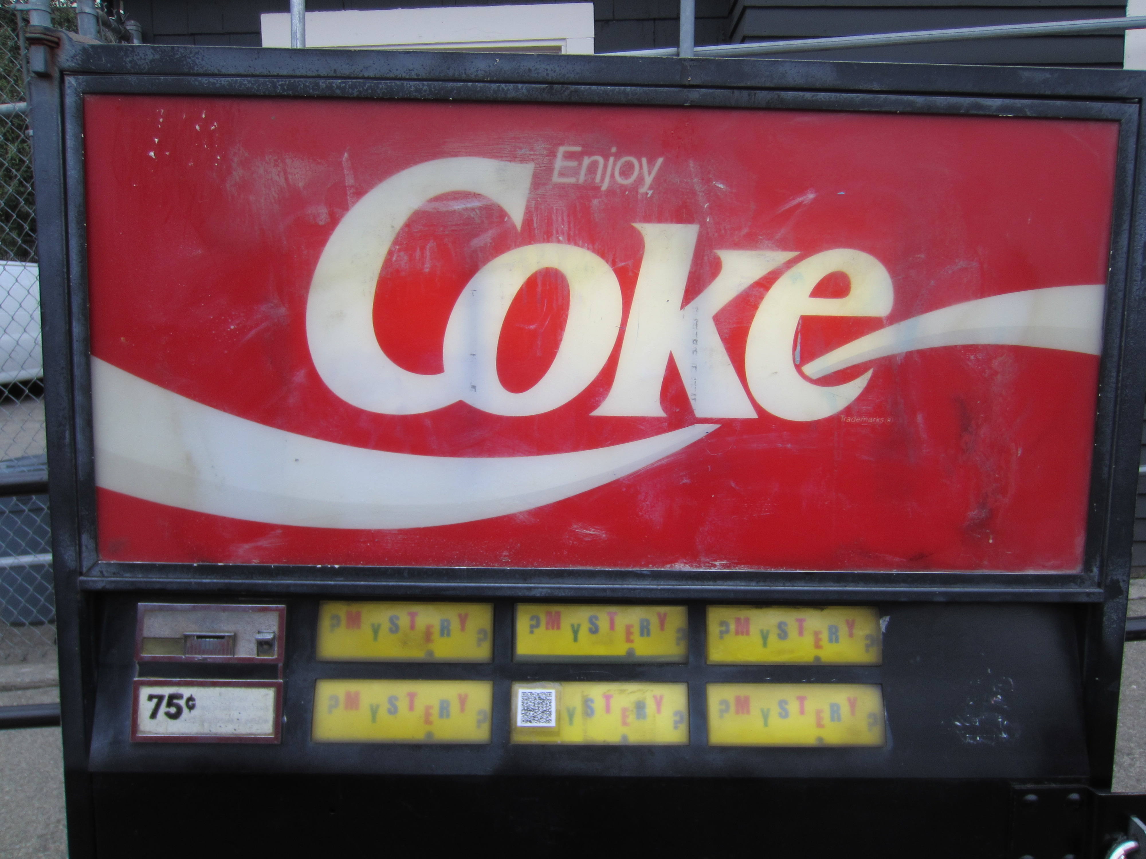 Coke machine on E. John St. in Capitol Hill, Seattle (2014)